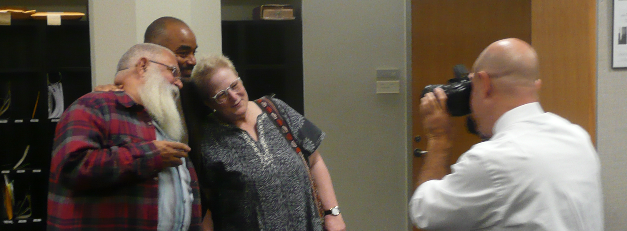 Robert Reid-Pharr, Eve Sedgwick, and Samuel R Delany at the CUNY grad center